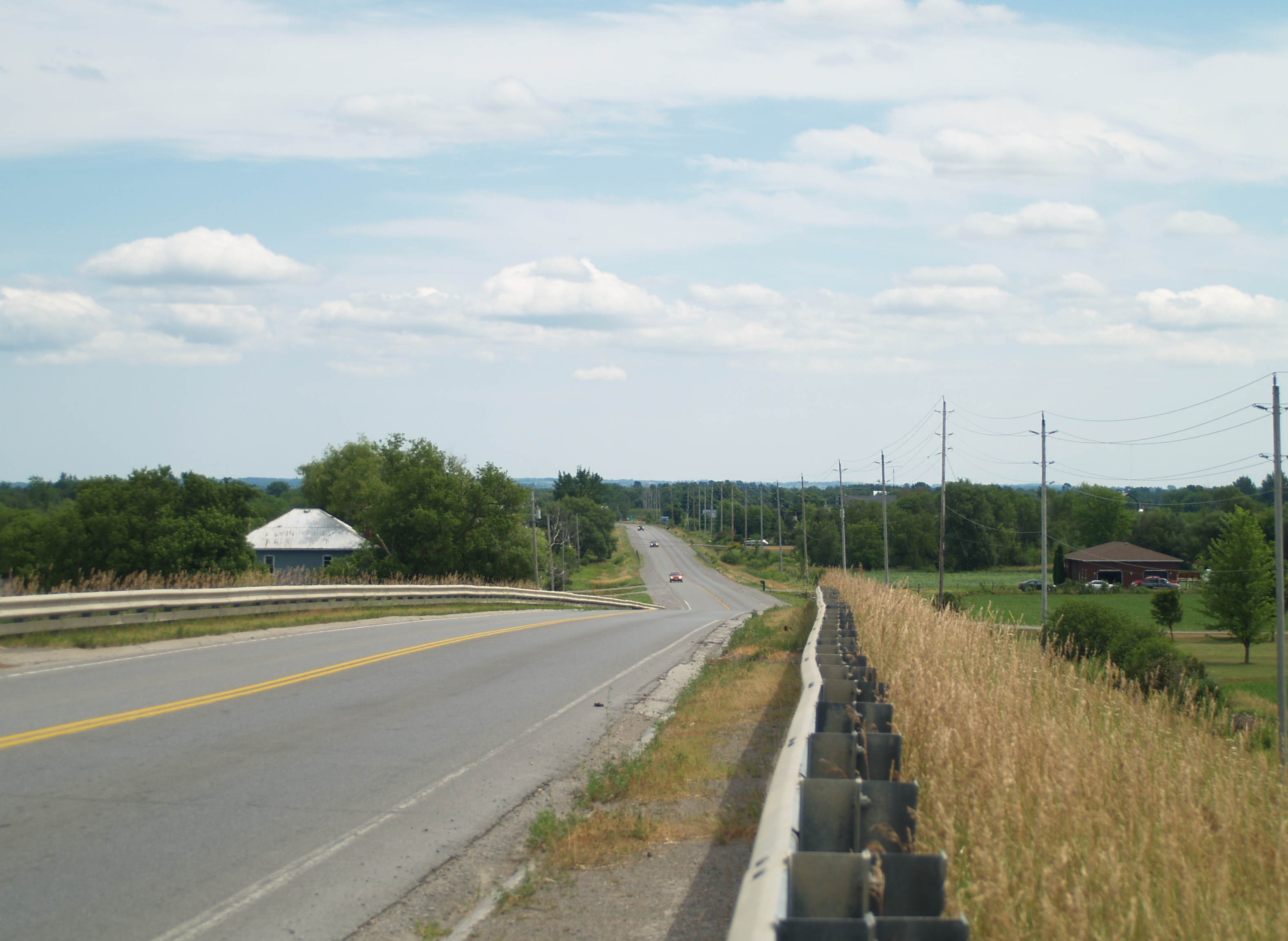 Highway 36 southbound, east of Lindsay, Ontario. The route ends in the distance at Highway 7